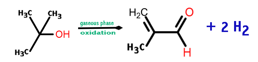 Methacrolein from terc-butanol